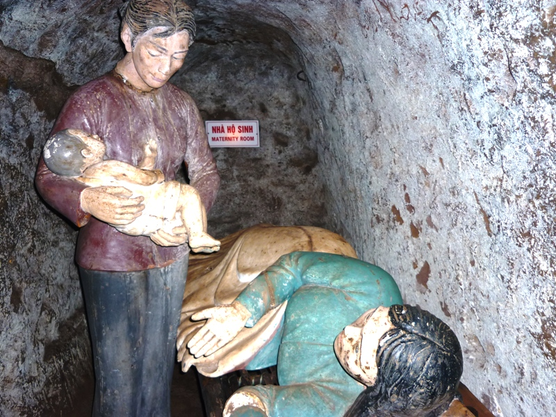 Maternity Room in Vinh Moc tunnel (where 17 babies were born)